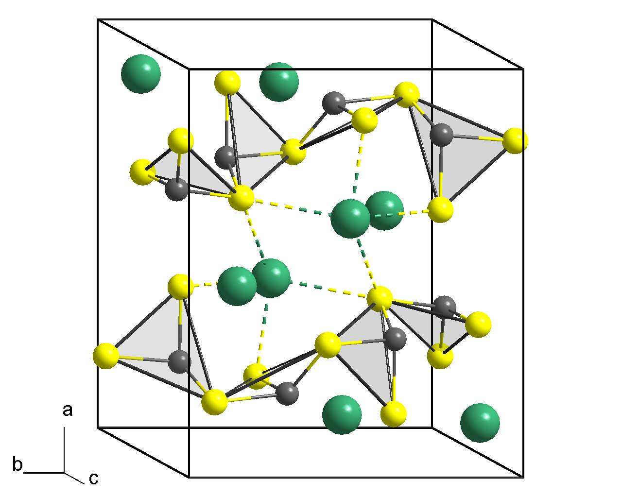 Crystal structure of lorandite based on